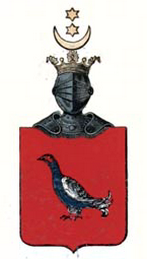 Coat of Arms of family